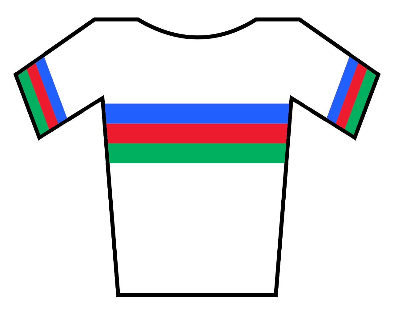 Azerbaijan national champions jersey